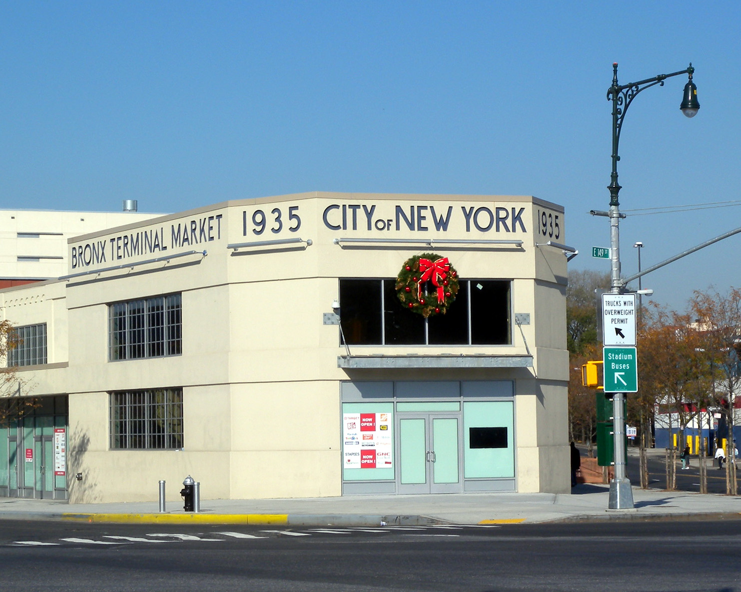 Looking north across 149th Street at Bronx Terminal Market on a sunny afternoon in November. EXIF says September due to photographer's error.